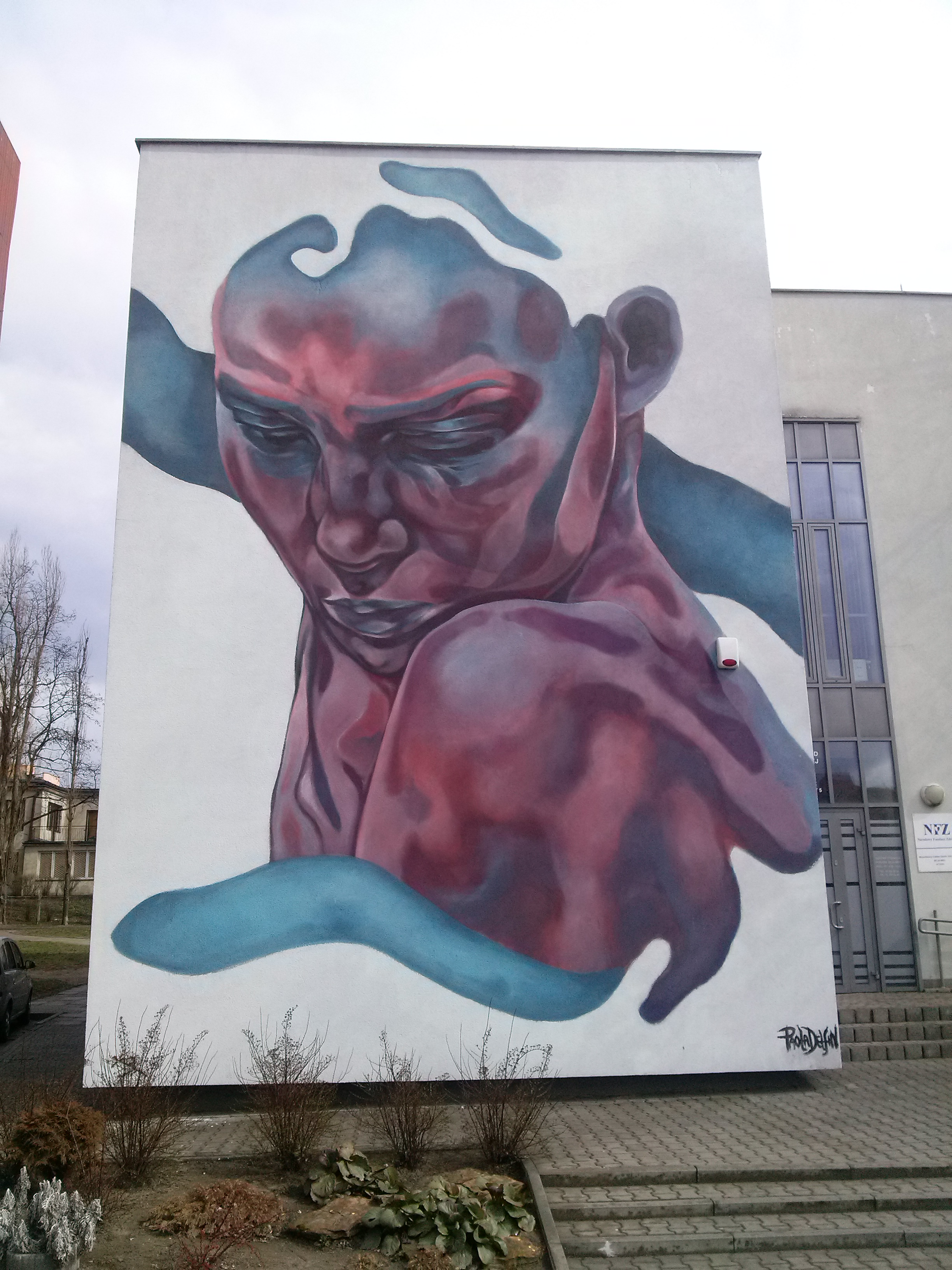 Paola Delfin (Mexico) mural, Łódź 5 Brzechwy Street